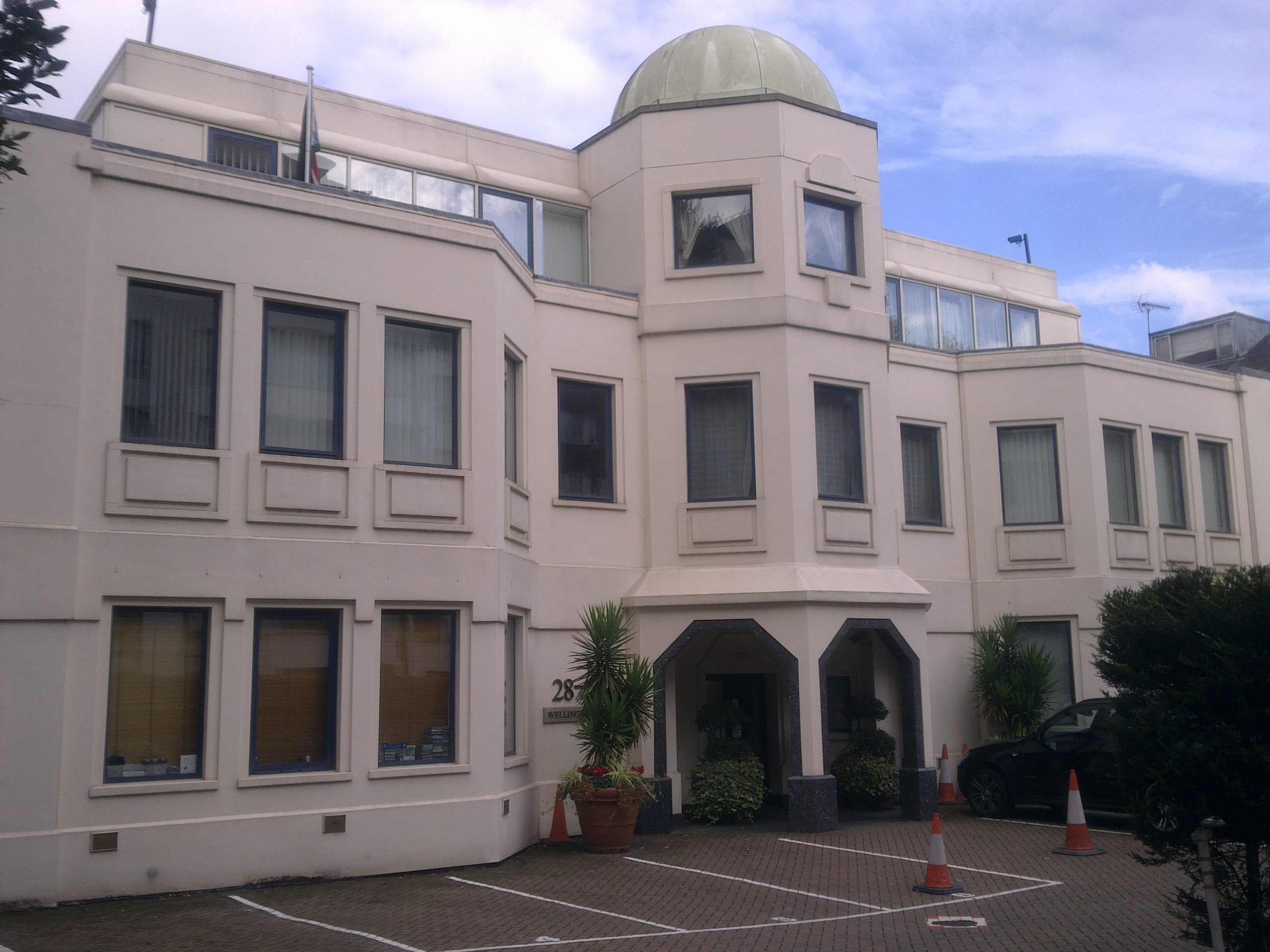 Embassy of South Sudan, London